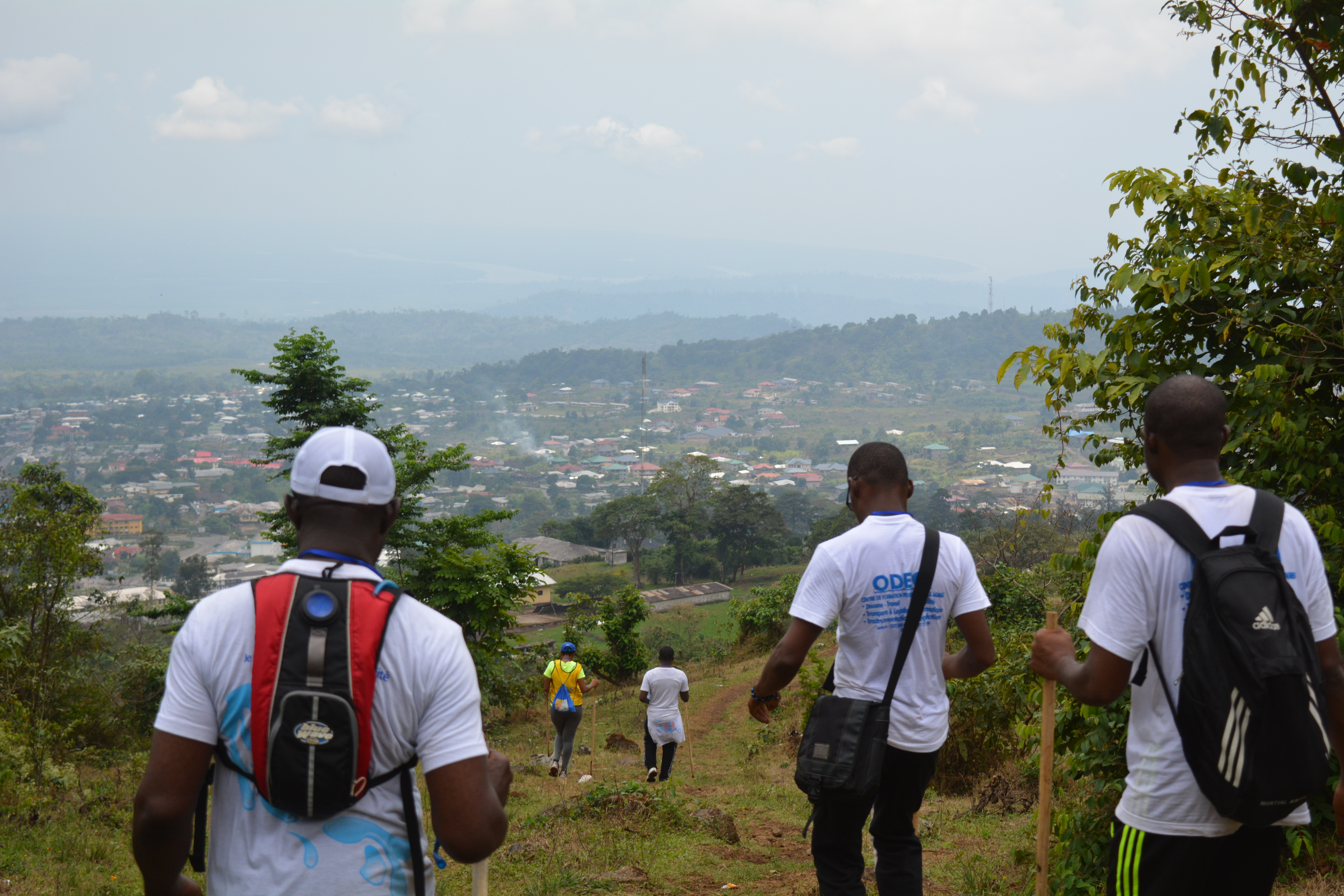 This is an image with the theme "Play" from: Cameroon